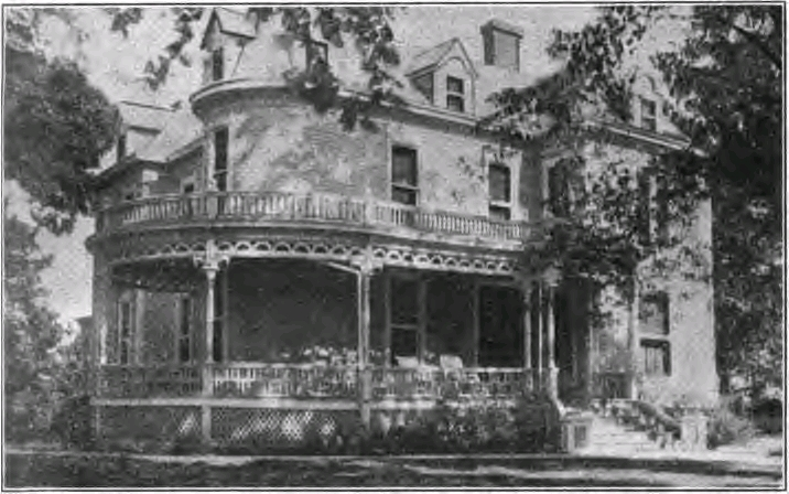 This is the Home of Prof. S. A. Weltmer, Where he finds rest and harmony after a long day of ministering to the sick. This beautiful home is known for its wonderful garden and many flowers.